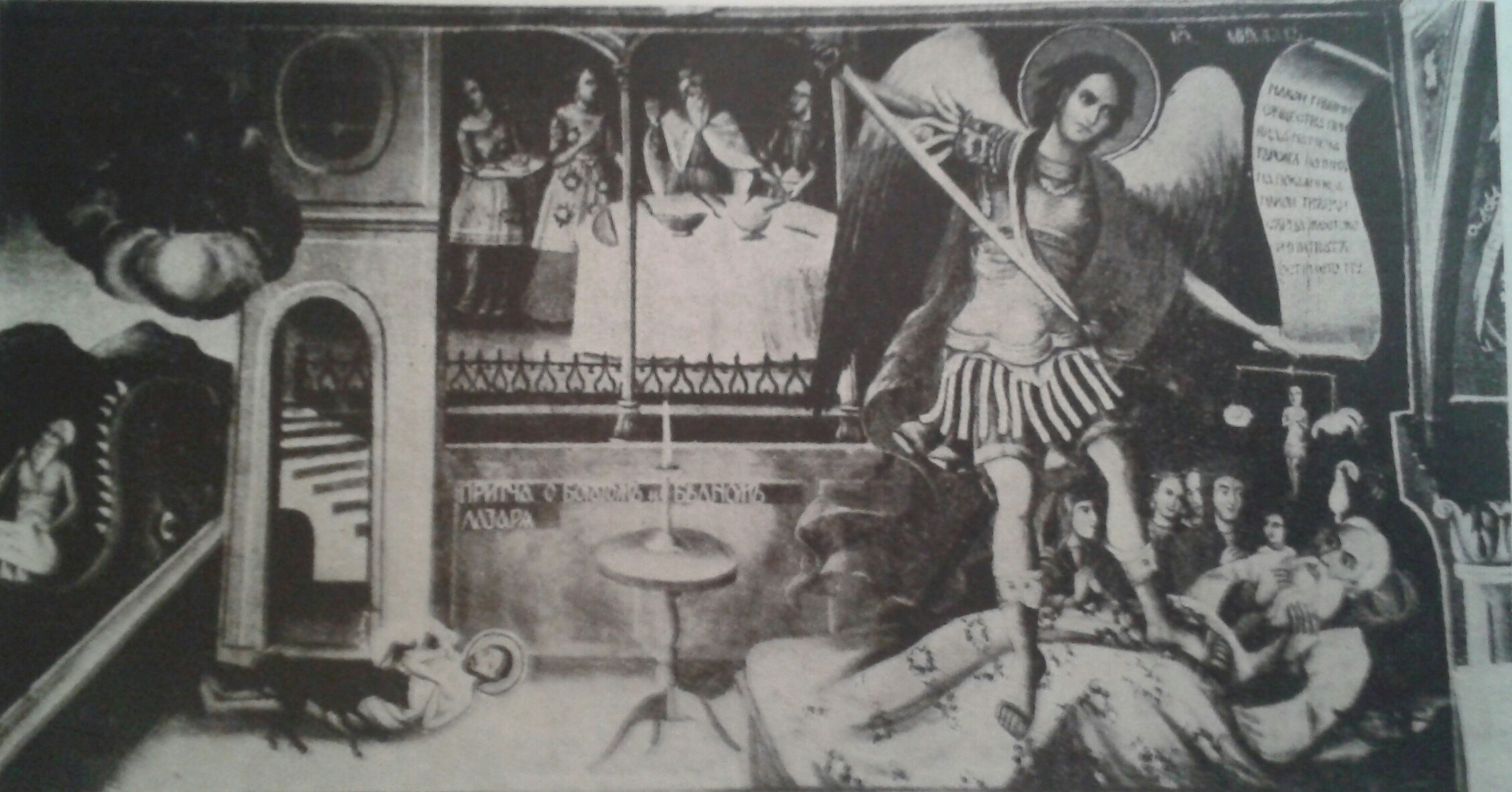 Old mural in St Mary Church in Petrich, Bulgaria.